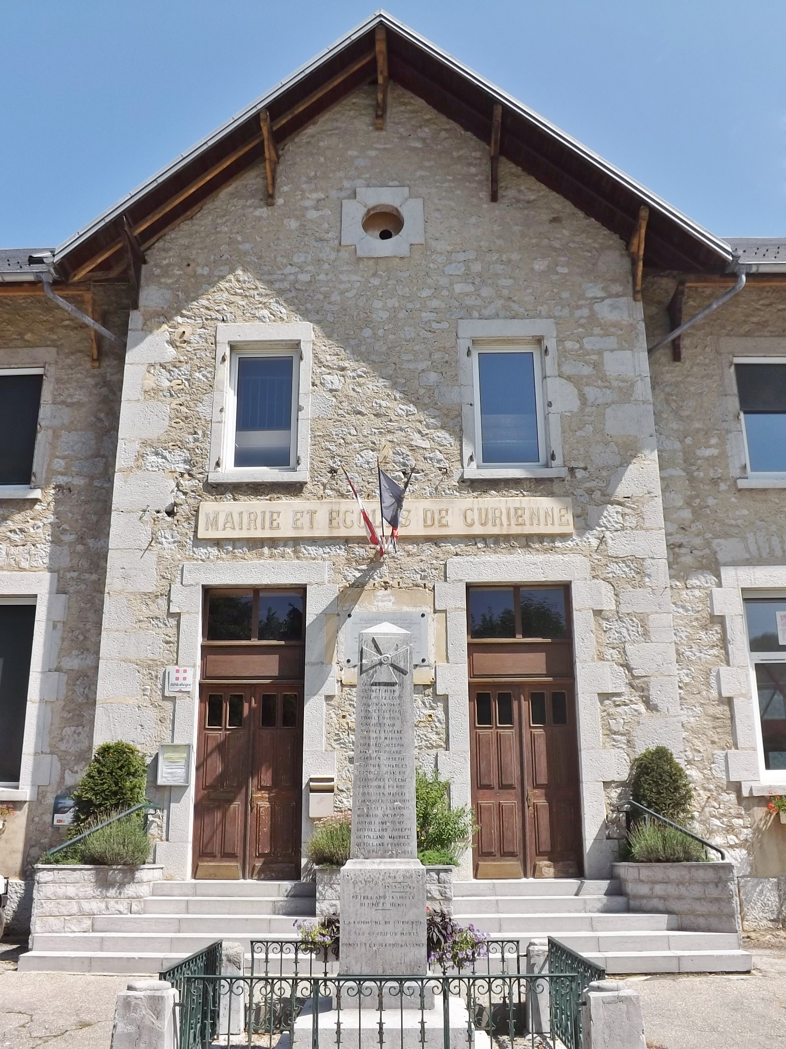 Sight of the French commune of Curienne town hall, near Chambéry in Savoie.